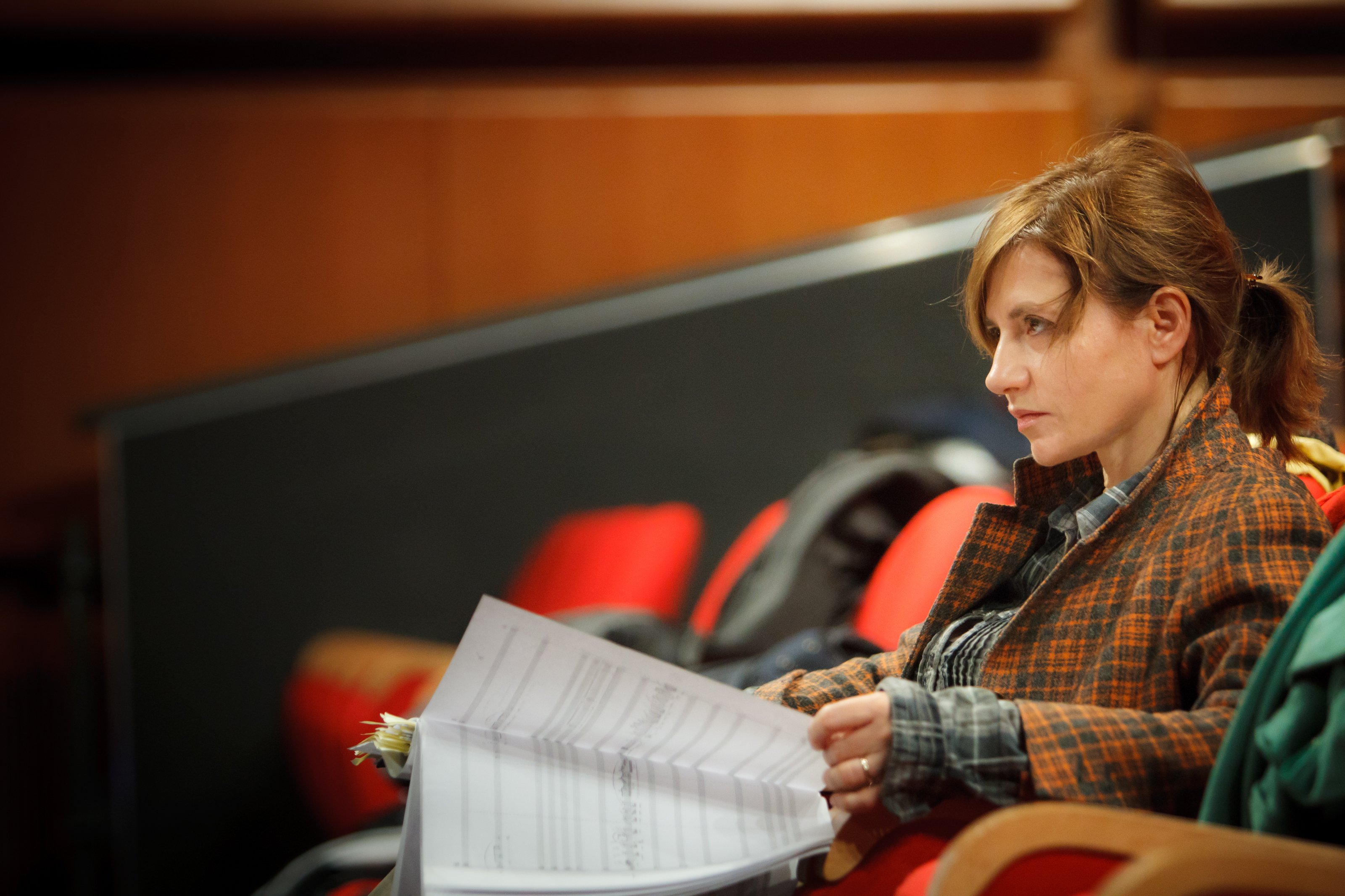 This photo shows the composer Lucia Ronchetti